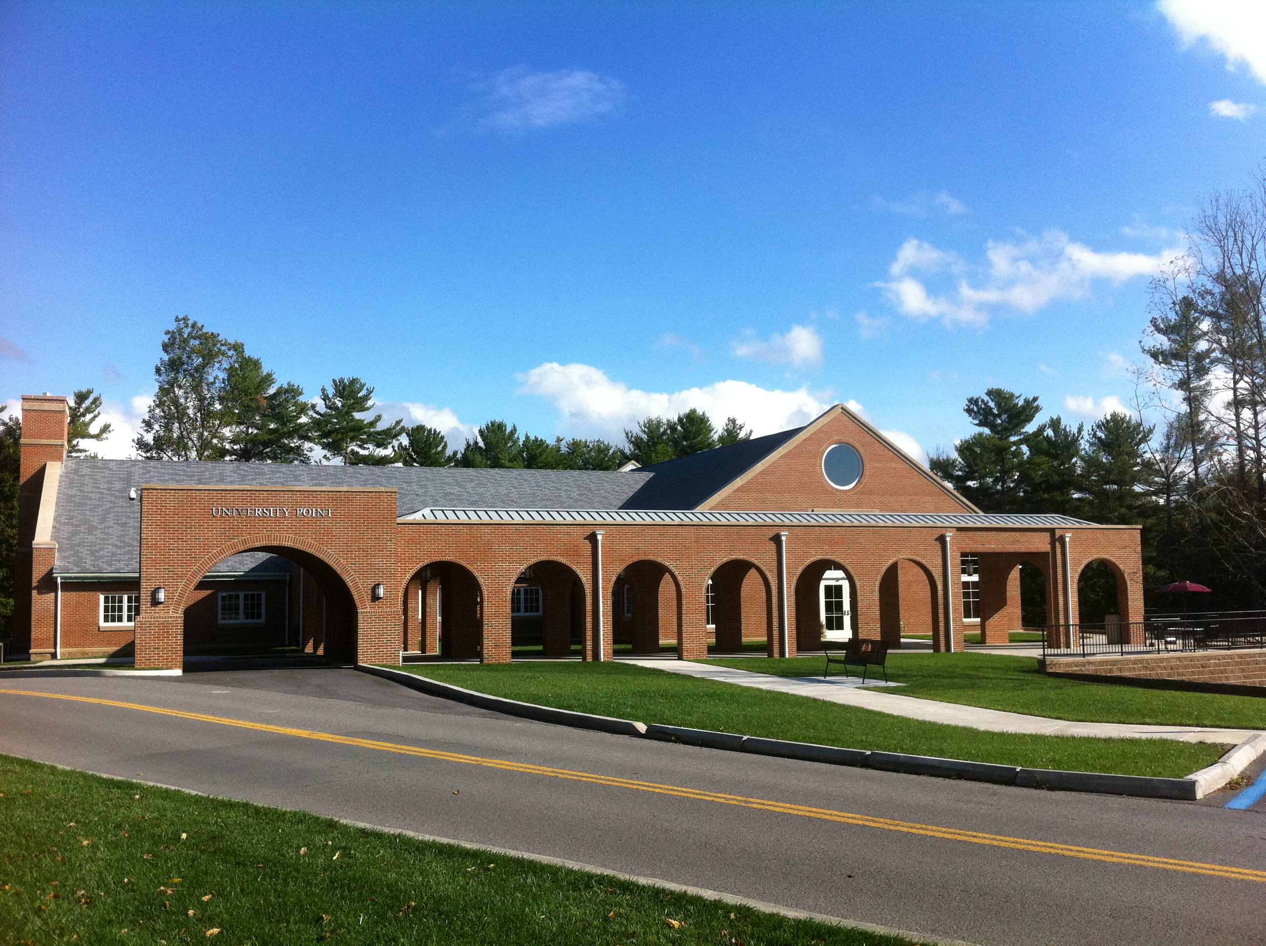 Concord University located in Athens, West Virginia USA. The "University Point" building.